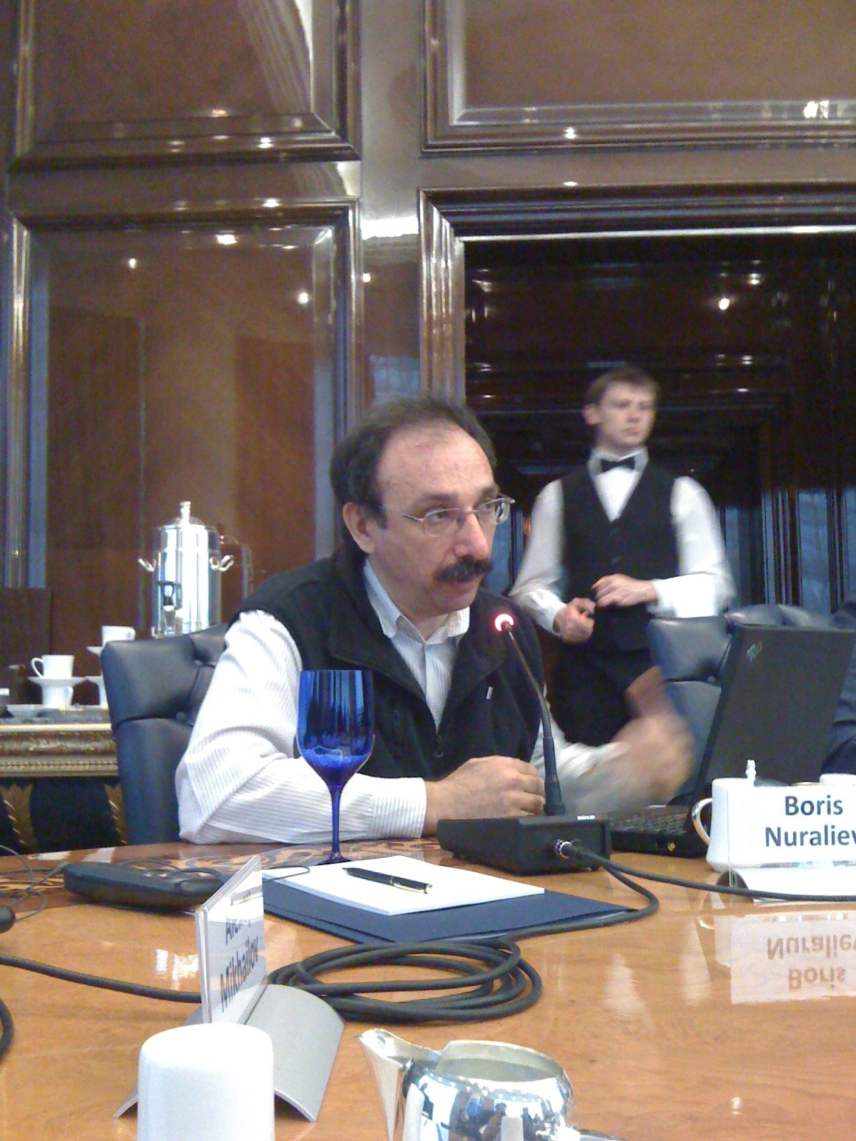 Boris Nuraliev, Russian businessman